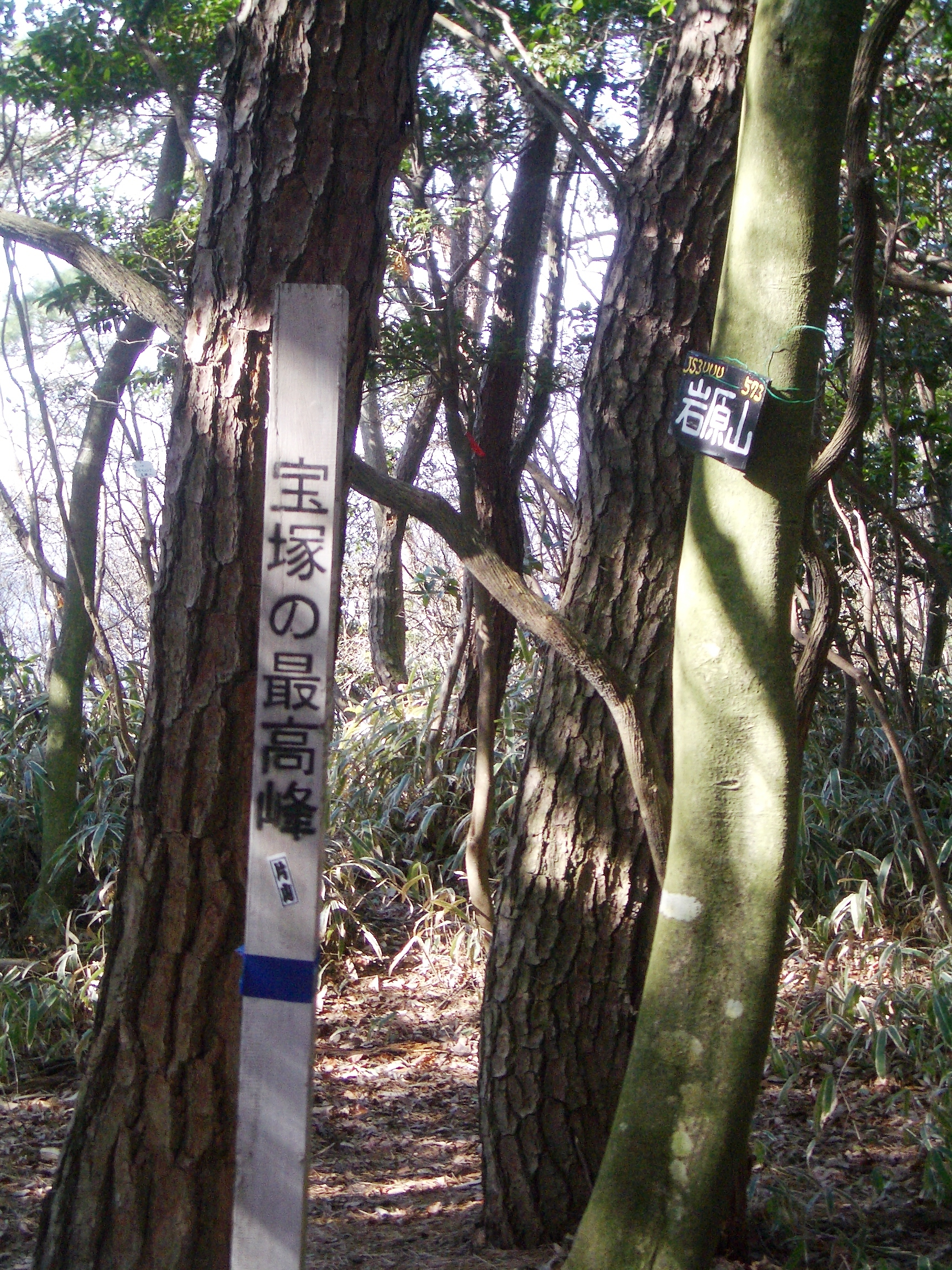 Top of Mount Iwahara, Takarazuka, Hyogo, Japan.